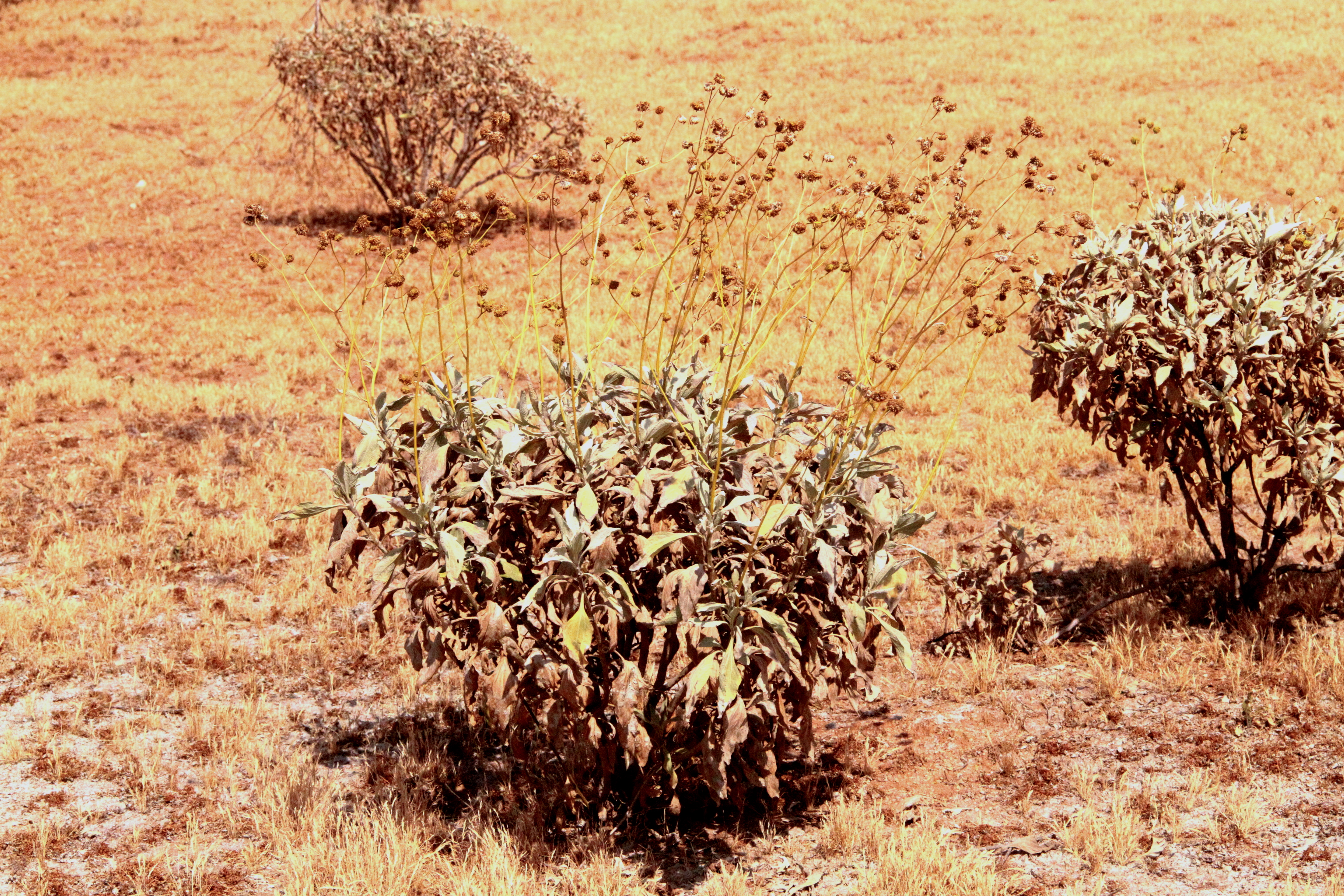 White Sage Salvia apiana